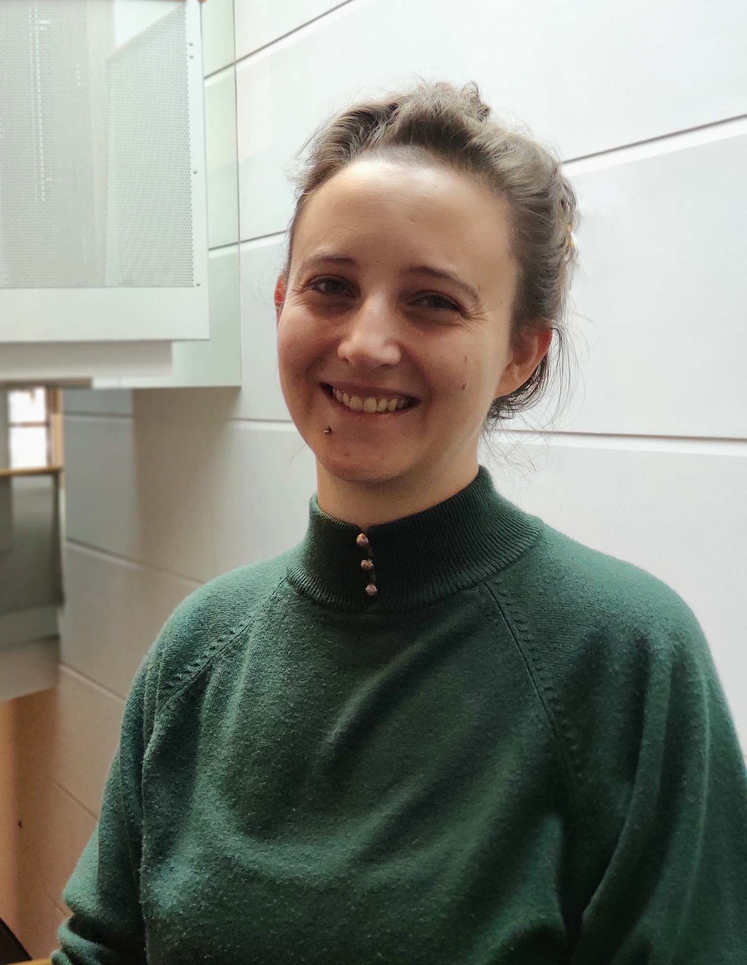 Mira Burt-Wintonick after the screening of Wintopia at the international documentary film festival Amsterdam 2019